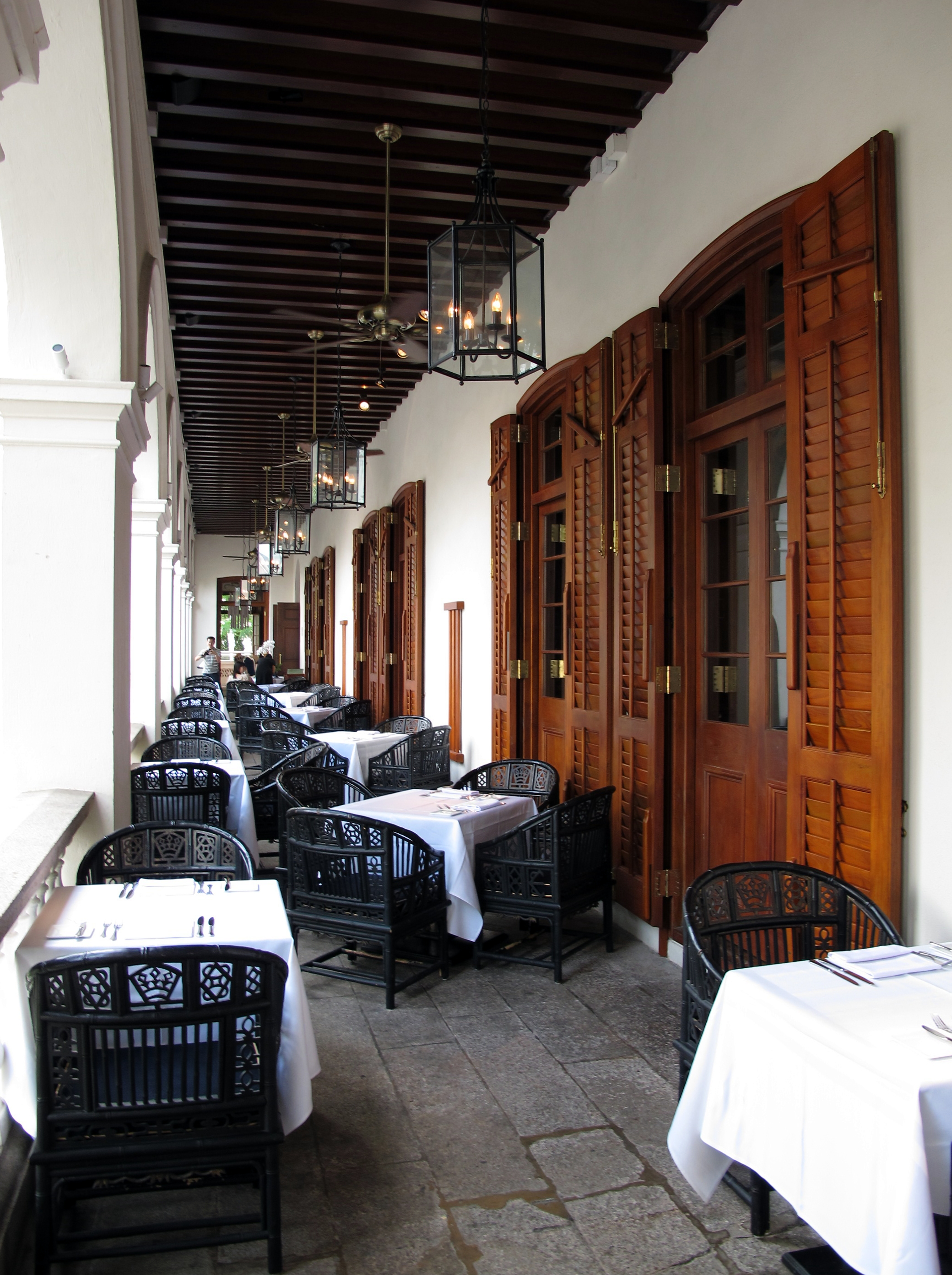 1881 Heritage Main Building Corridor